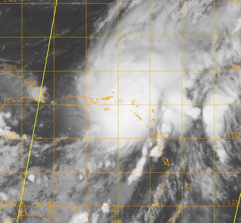 Hurricane Omar (2008) at its peak intensity on 2008-10-16